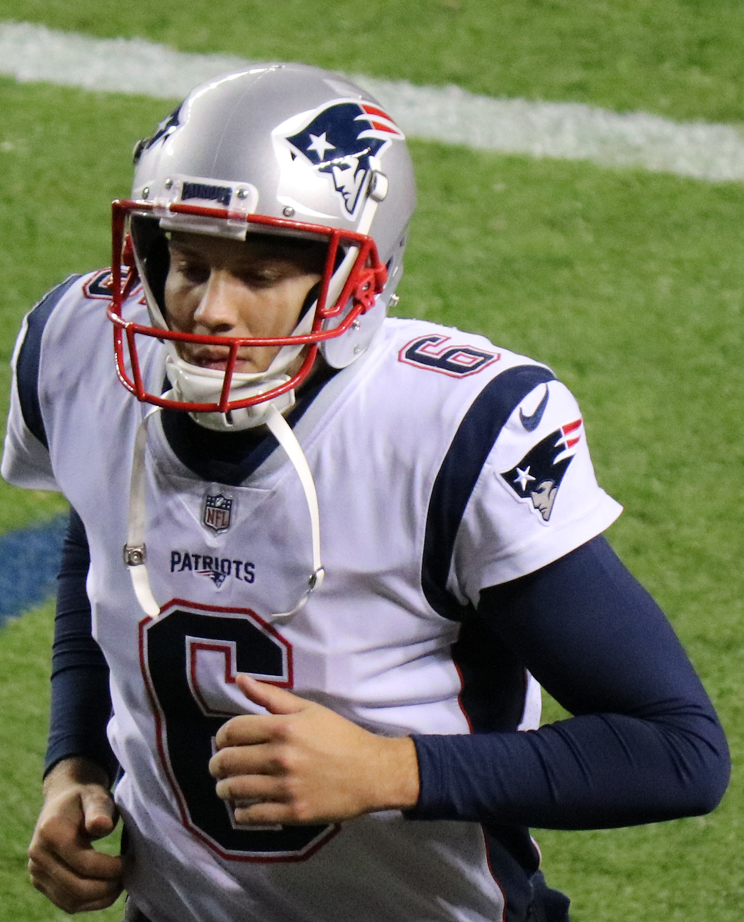 Ryan Allen, a National Football League player.